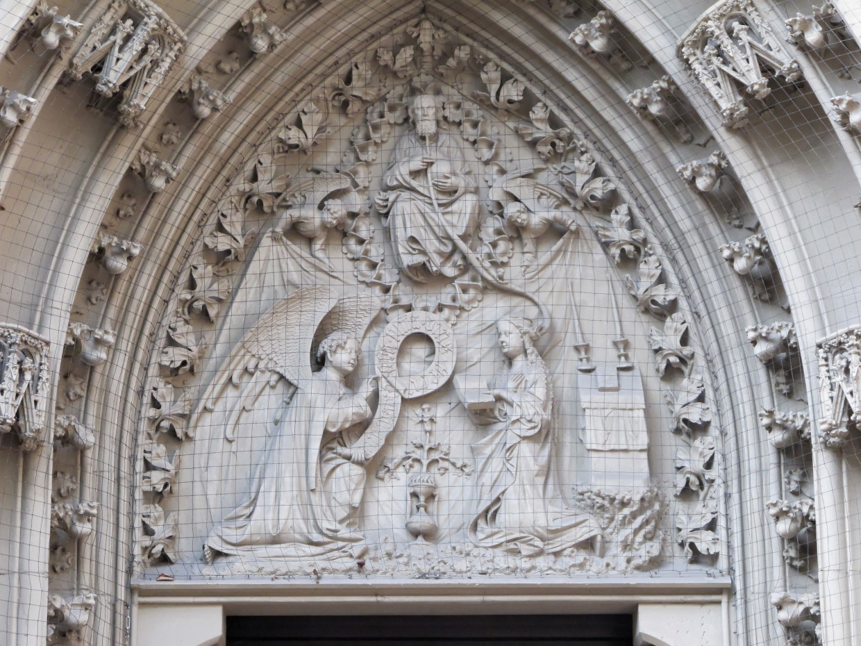 Würzburg, Chapell "Holy Mary". Northern Porch